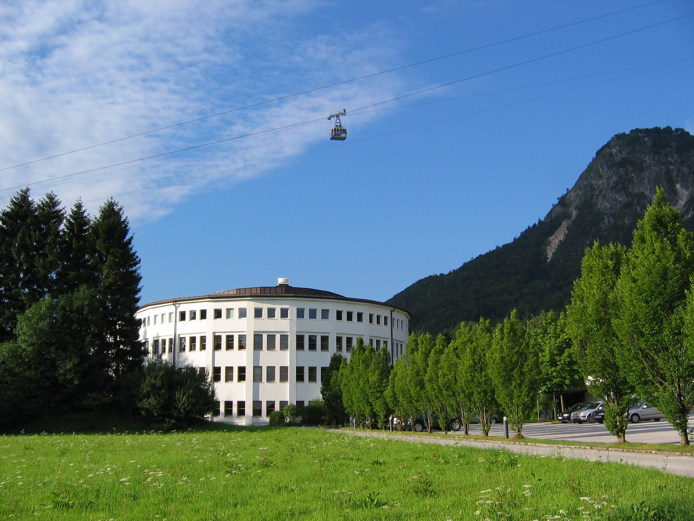 headquater of Skidata AG, an international supplier for entrance control and similar data control systems; the cableway car above is part of Untersbergbahn leading up mountain Untersberg